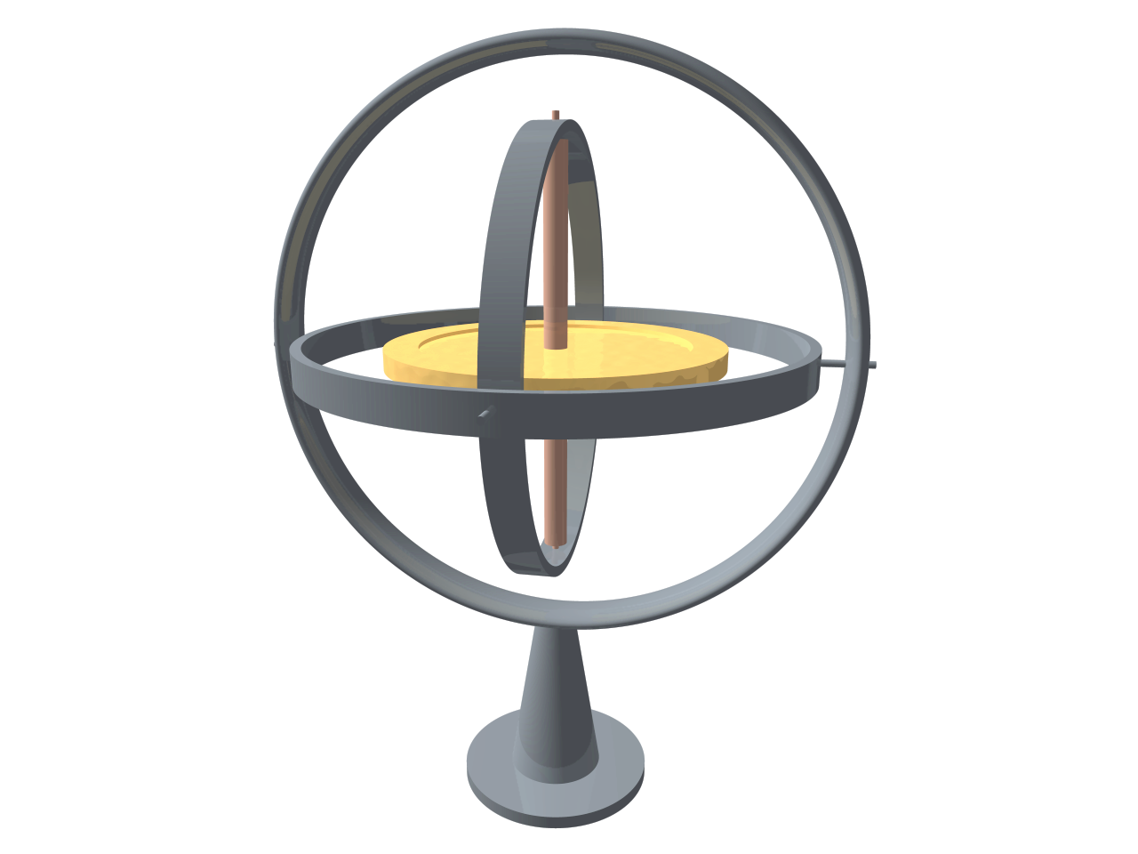 Image:3D_Gyroscope.png, but without english text.